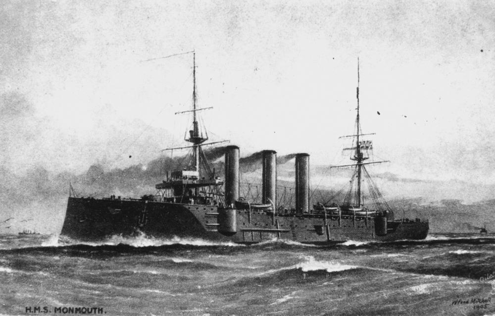 Monmouth (ship) H.M.S. Monmouth. 9800 tons. Armoured cruiser. Launched 1901. Painting by Wilfred Mitchell. (Description supplied with photograph).